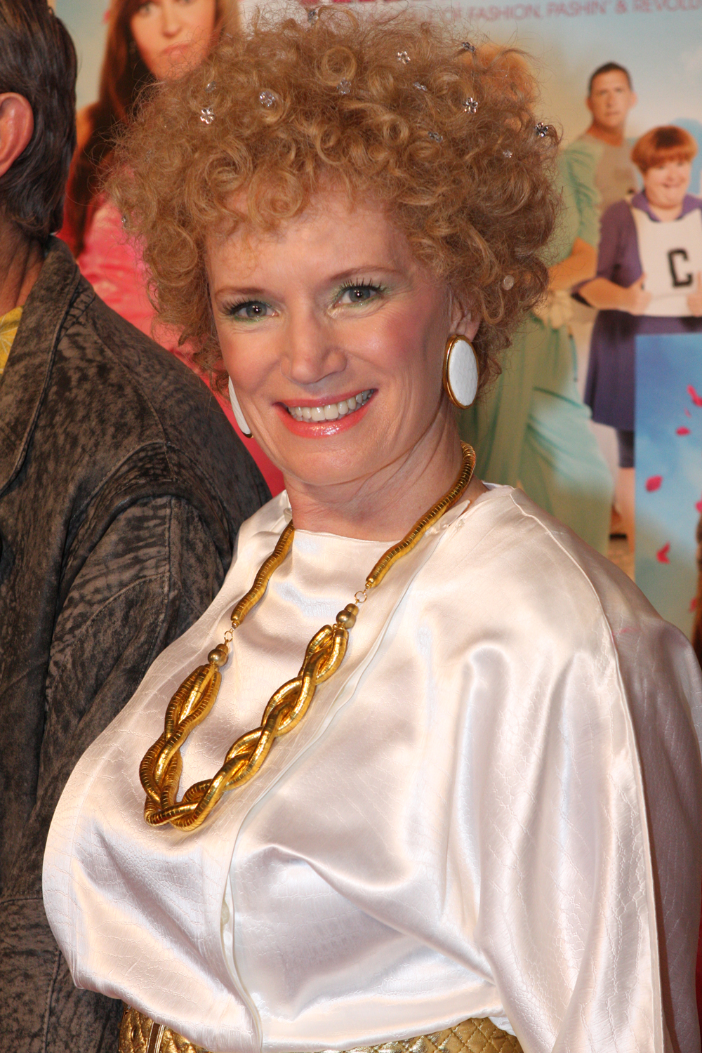 Jane Turner at the Kath & Kimderella movie premiere at Entertainment Quarter; Sydney, Australia